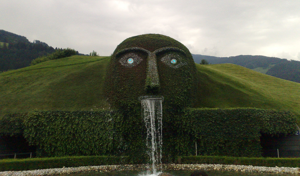 The crystal head at Swarovski Kristallwelten (Crystal Worlds) in Wattens, Austria.